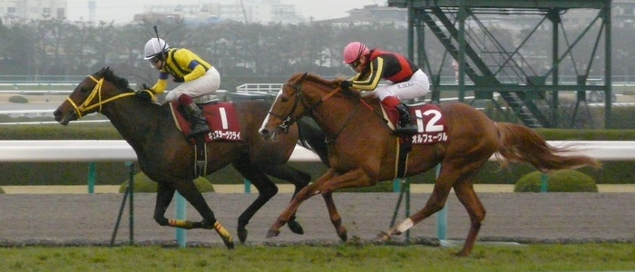 Gustave-cry20120318(3)